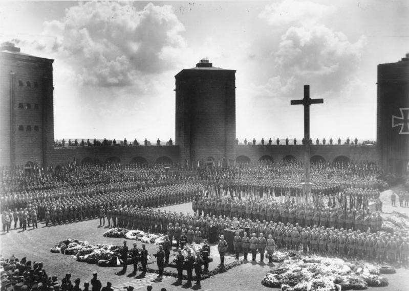 On 7 August 1934 at the Tannenberg Memorial, funeral of Generalfeldmarschall Hindenburg, the last president of the German Reich : Hitler, the Reich chancellor, is delivering his homage speech, standing at a pulpit in front of the coffin.